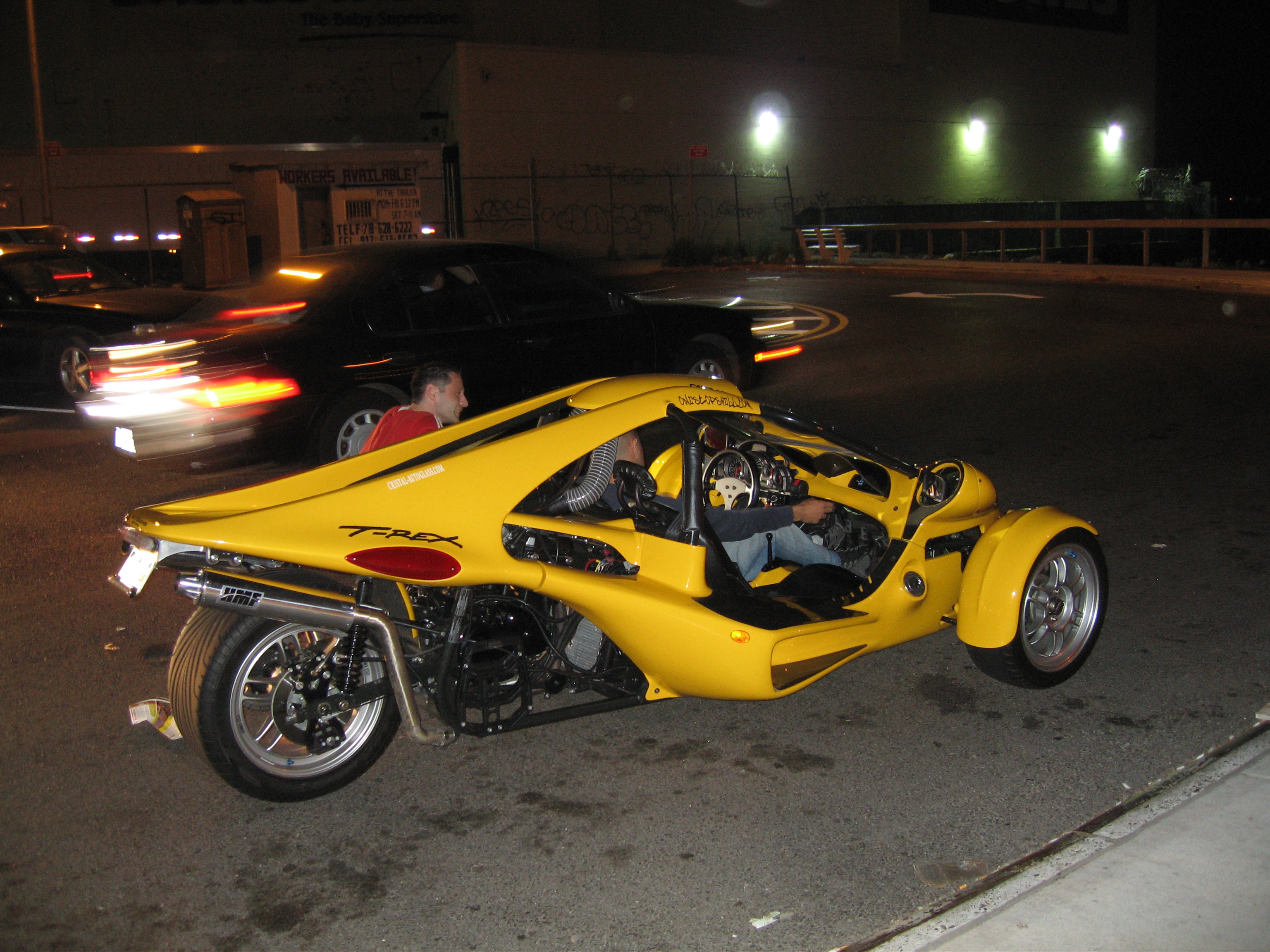 Anglais : Campagna T-Rex is a 2-seat, 3-wheeled motorcycle that combines the look and handling of a car with the fuel economy of a motorcycle, created by Canadian auto/bike builder Campagna Corporation located in Quebec. Using a 1.4 L, 4-cylinder engine, it accelerates from 0-97 km/h (0-60 mph) in 3.5 seconds, with top speed of 252.66 km/h (157 mph). Although classified as a motorcycle, the interior can accommodate two passengers side-by-side, with adjustable seat backs, foot-pedal box, and 3-point retractable safety belts. The manual transmission, although controlled by hand, more closely resembles motorcycle transmissions than that of a car.